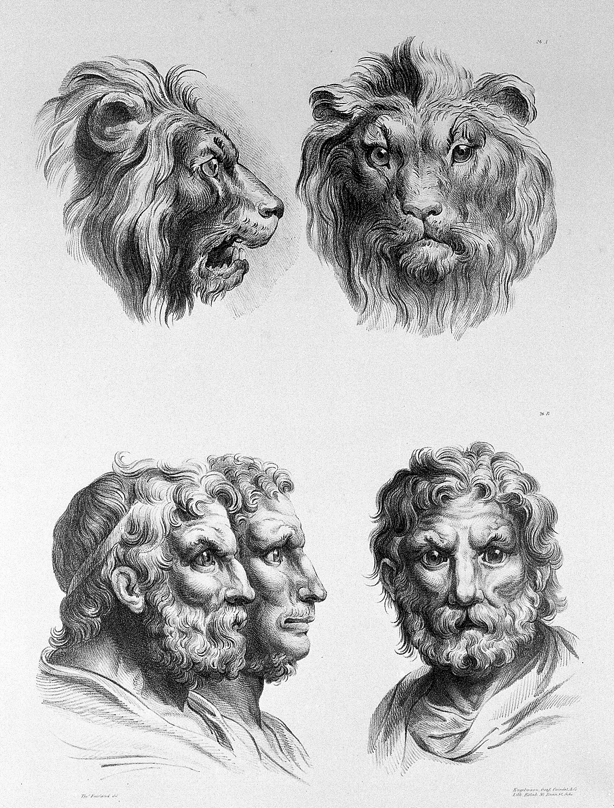 A series of lithographic drawings illustrative of the relation between the human physiognomy and that of the brute creation Rare Books Keywords: Physiognomy; Charles Le Brun